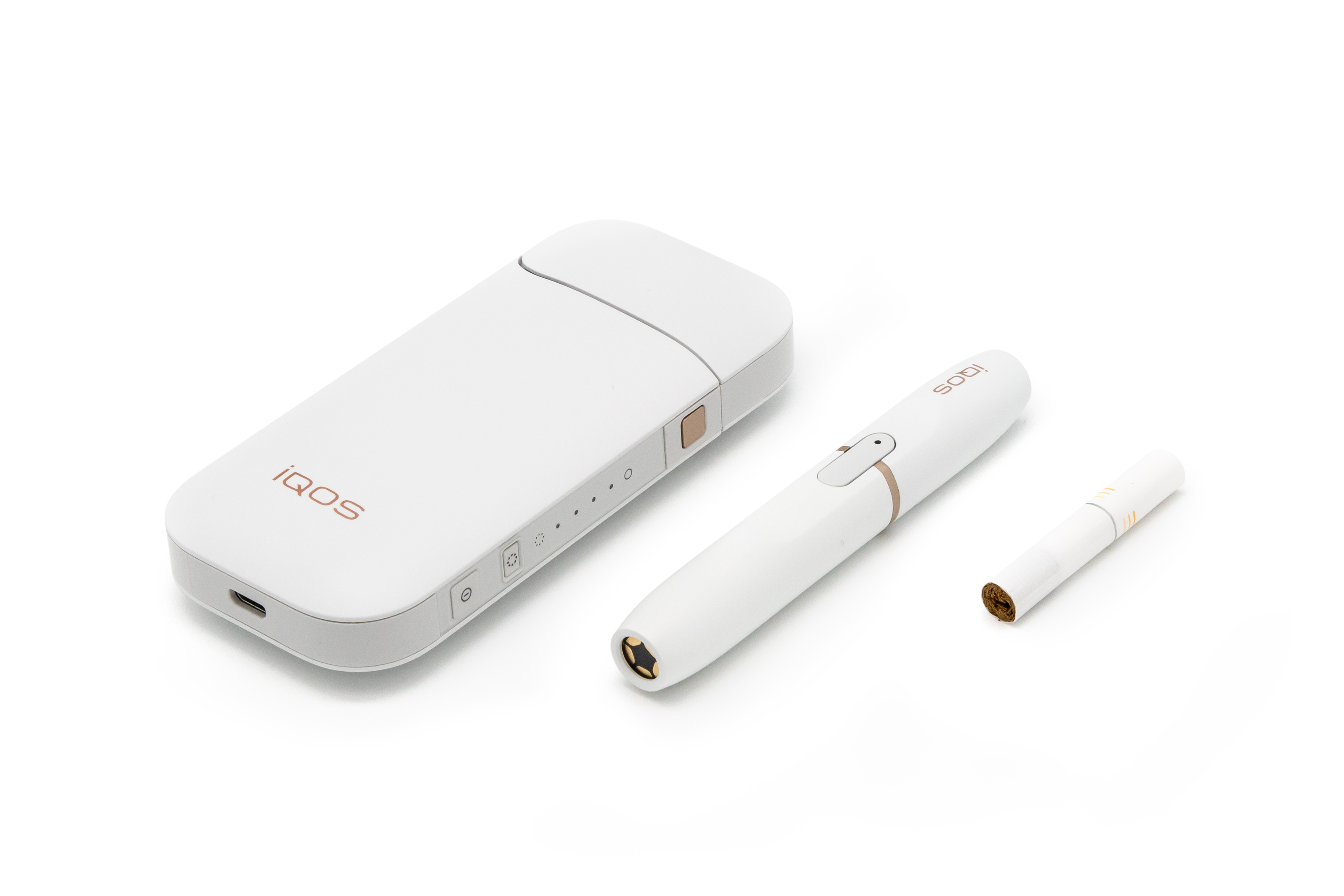 The IQOS of Philip Morris International is a heated tobacco smoking device (centre, with charger shown on the left) into which is inserted a short cigarette (right).